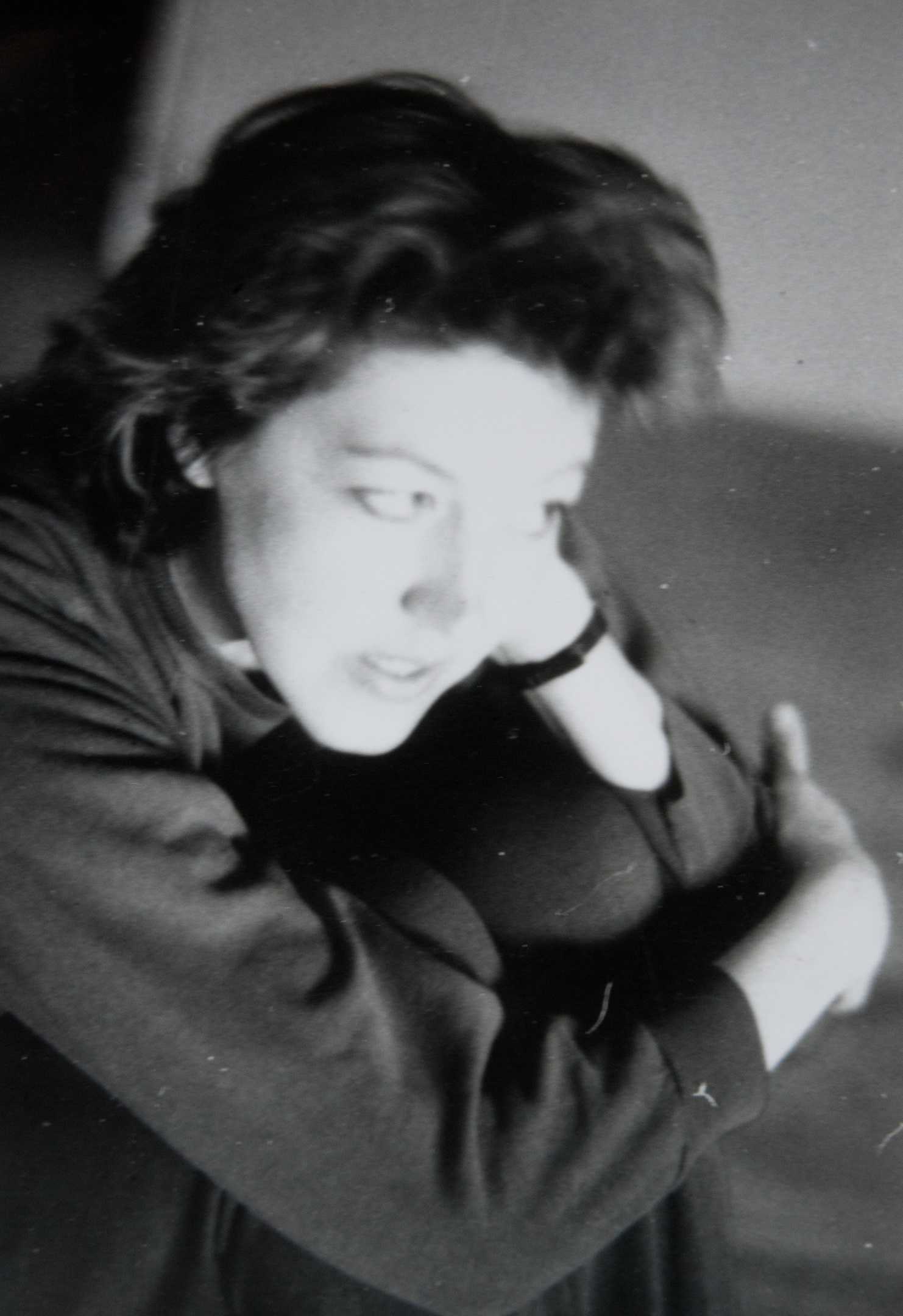 Headshot